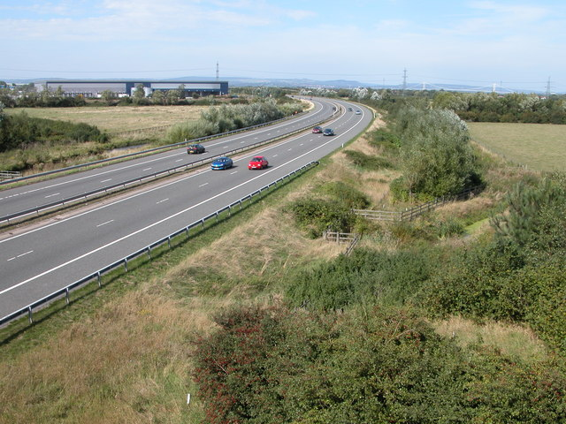 M49 at Dyer's Common The M49 is a short motorway linking the M4 at the second Severn Crossing to the southboard M5. Dyer's Common is now occupied by distribution warehouses.